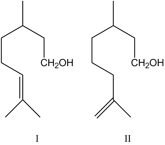 Citronellol